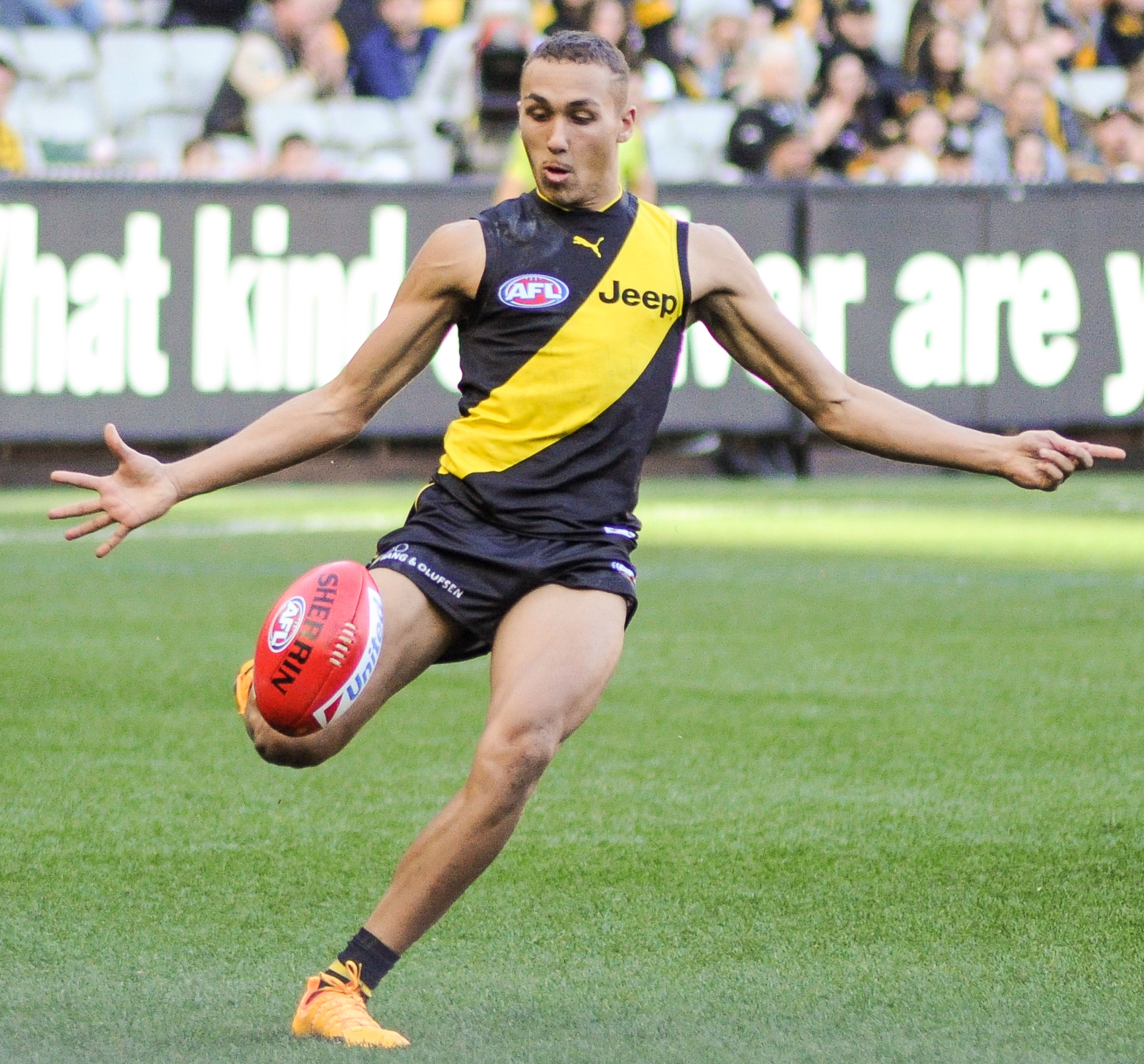 Shai Bolton kicking during the AFL round thirteen match between Richmond and Sydney on 17 June 2017 at the Melbourne Cricket Ground in Melbourne, Victoria.